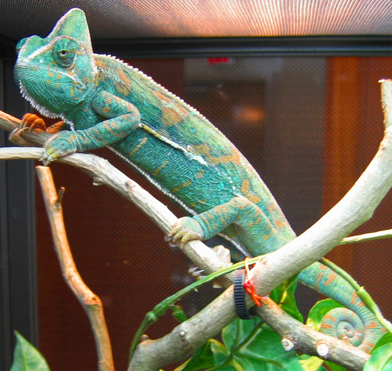 Photograph of a female Chamaeleo calyptratus. I photographed this in a laboratory with permission from the professor.